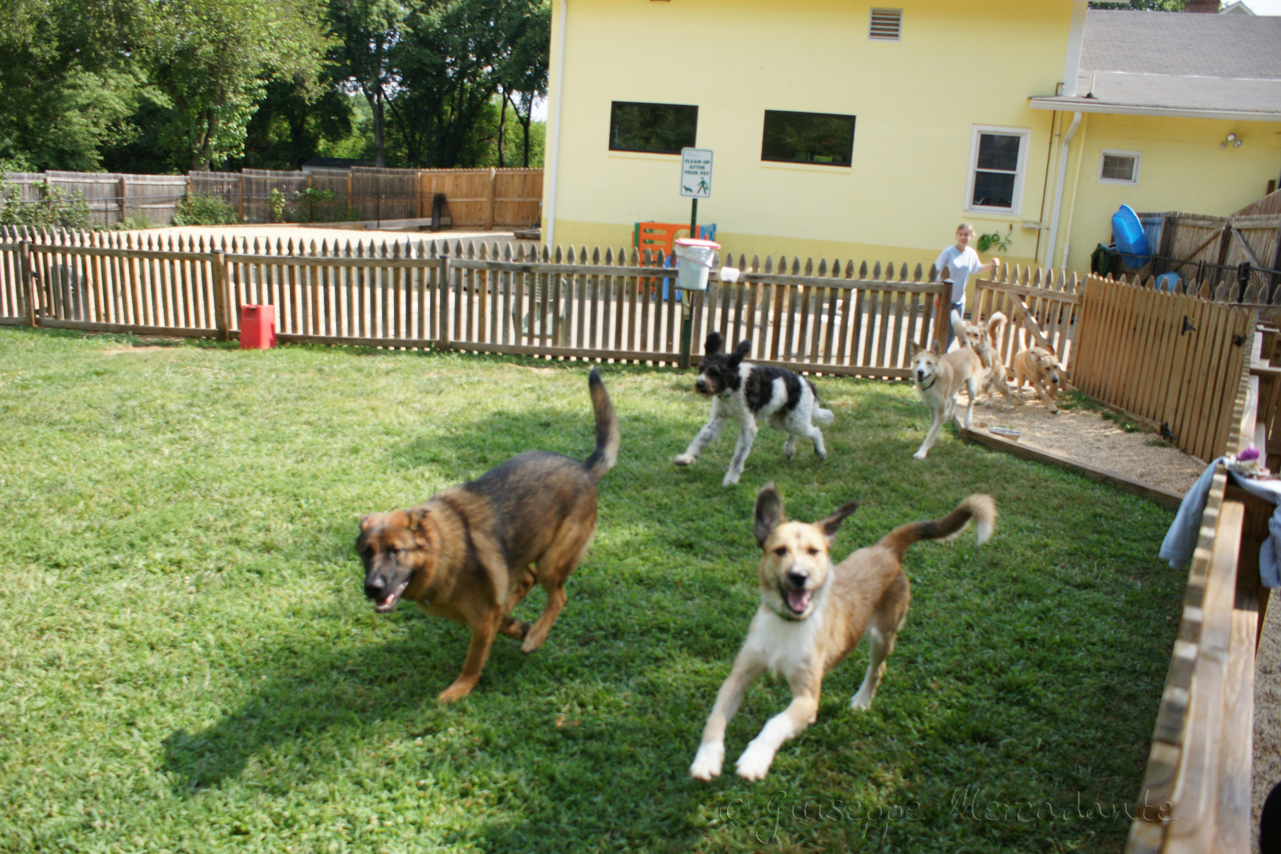 Dogs Running in the yard at Affectionate Pet Care